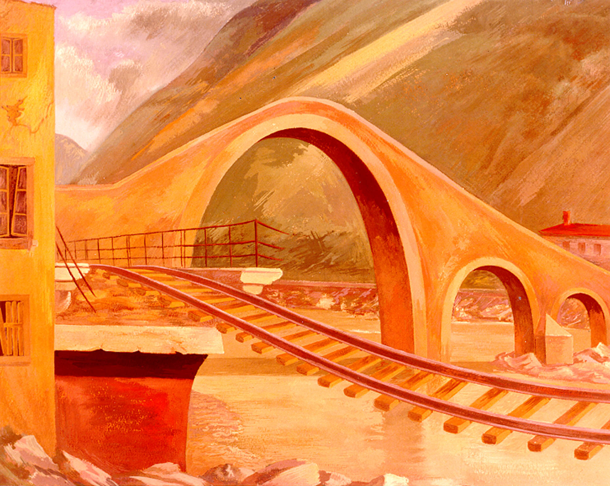 Painting: Madallena Bridge, Italy, 1944, by Ludwig Mactarian